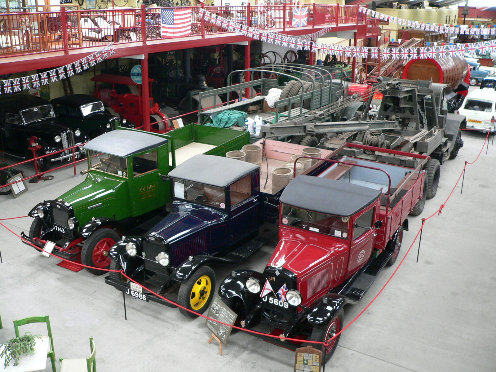 The main hall of the Pallot Steam, Motor and General Museum on Rue De Bechet, Trinity, Jersey, Channel Islands.